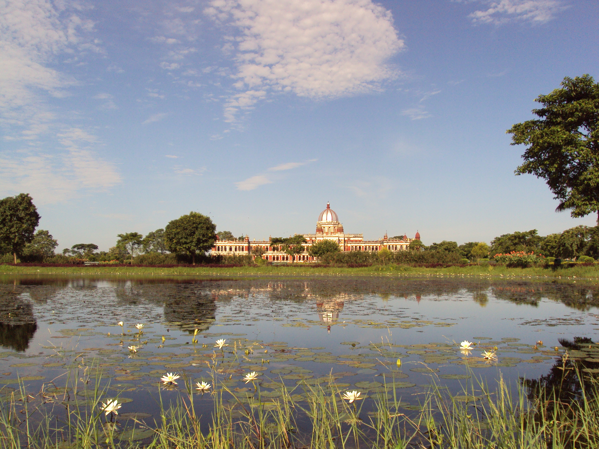 Cooch Behar Palace reflection in Waterbody